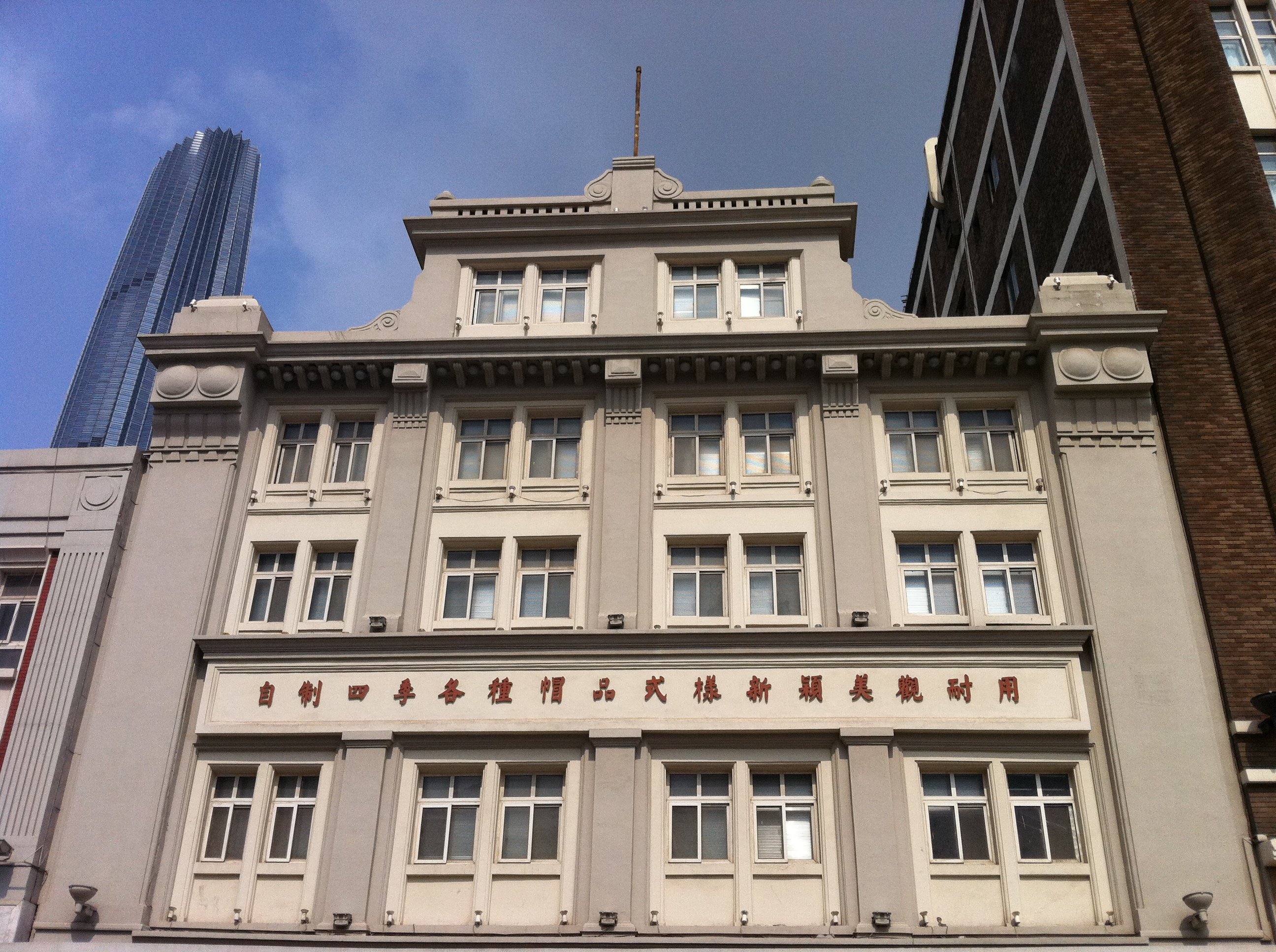 Shengxifu Building in Heping Lu No. 273, Heping District, Tianjin